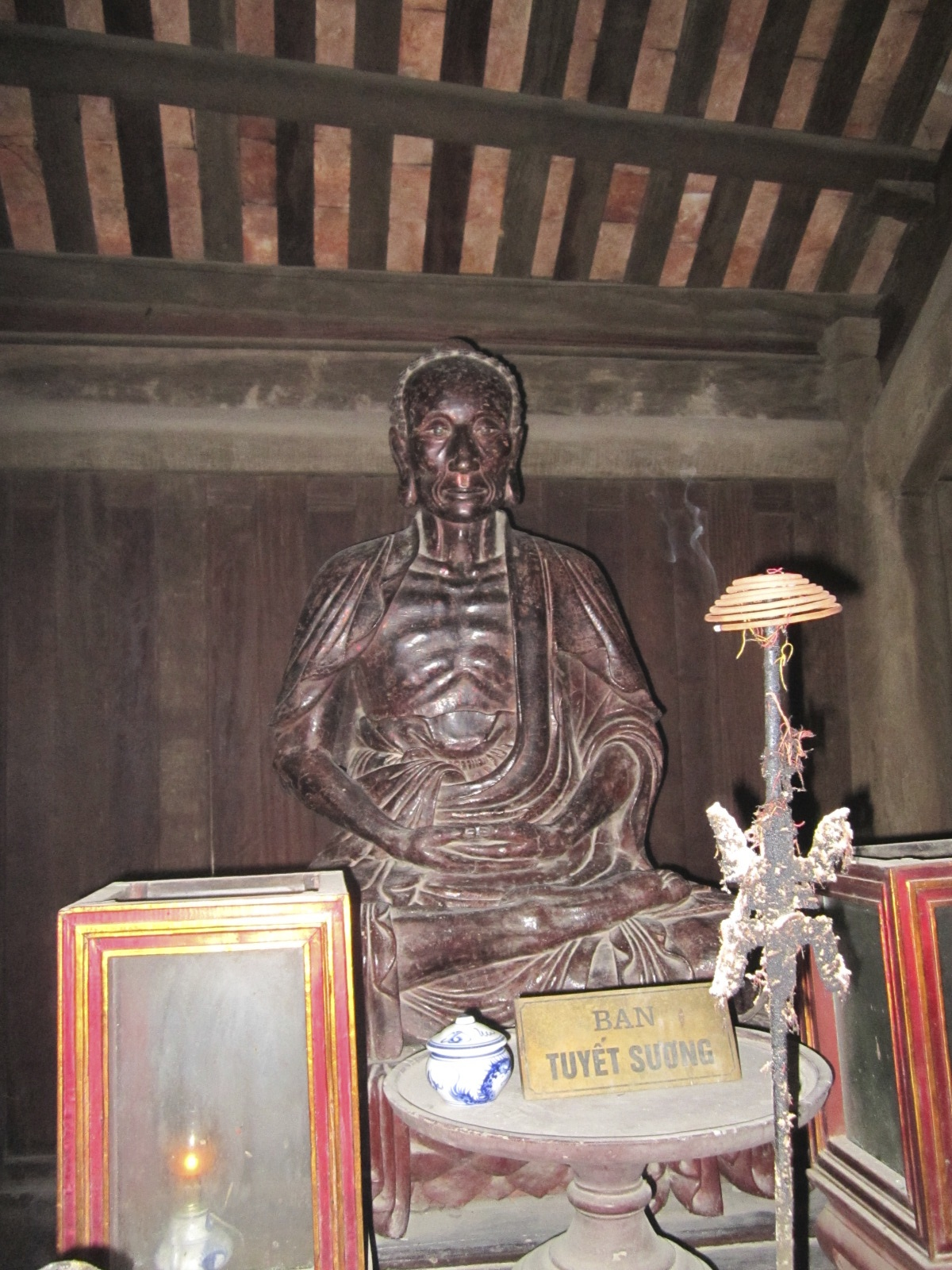 17th century Statue of the Emaciated Siddhārtha Gautama, Bút Tháp Pagoda, Vietnam